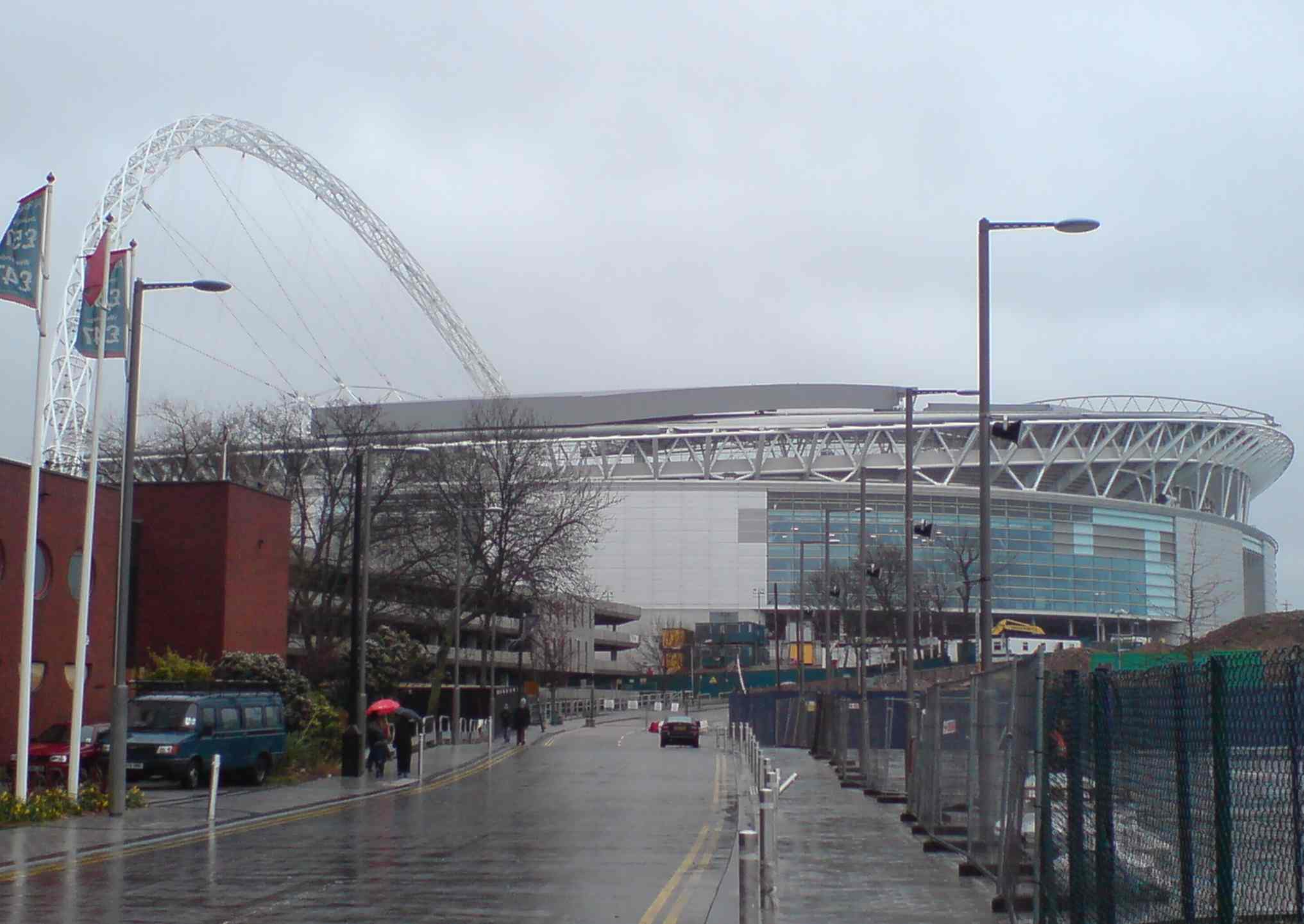 Taken by me on a visit to see how Wembley was getting on.